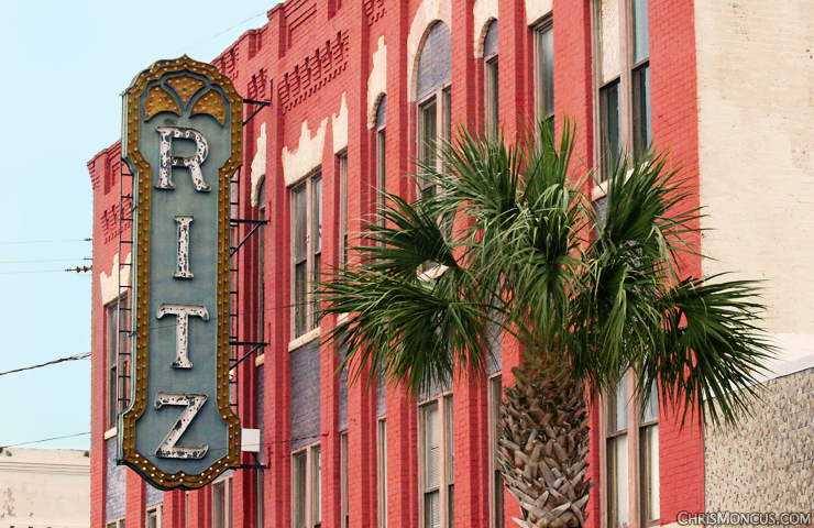 The Ritz Theatre in Brunswick, Georgia first served as the Grand Opera House. Now, it is home to several cultural events of the city as well as live performances.